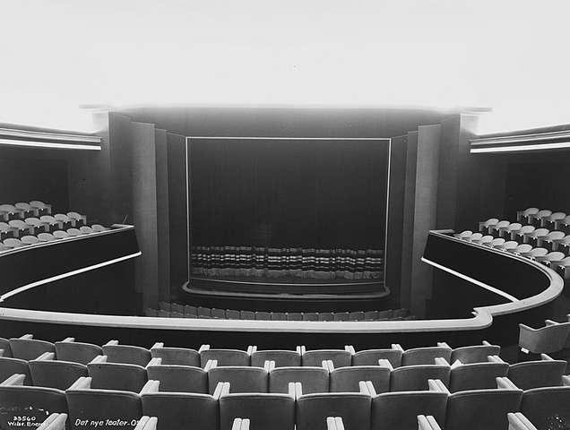 The theatre Det Nye Teater in Oslo, Norway, the day before the opening on 26 February 1929.